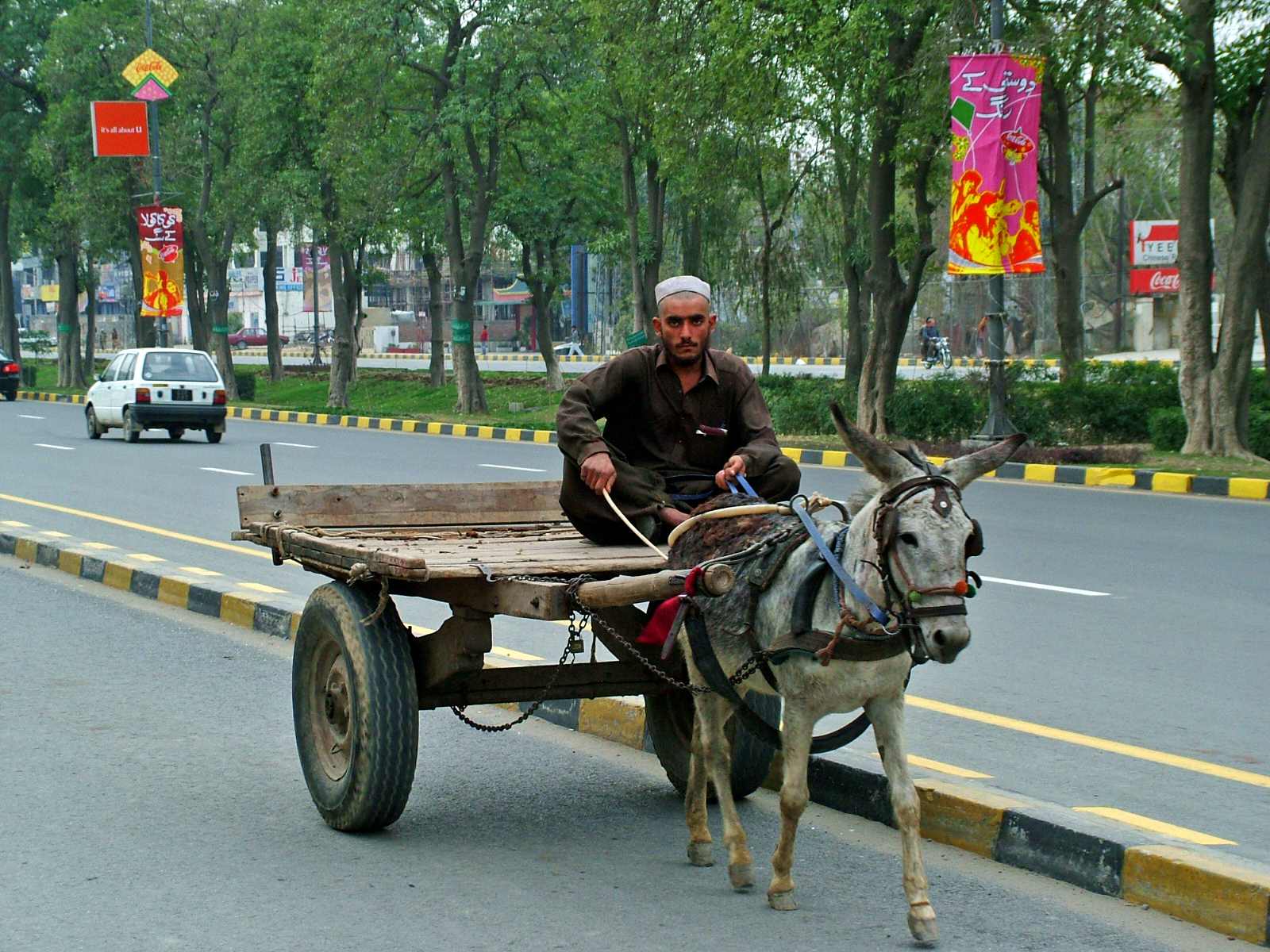 Donkey and Cart, Lahore